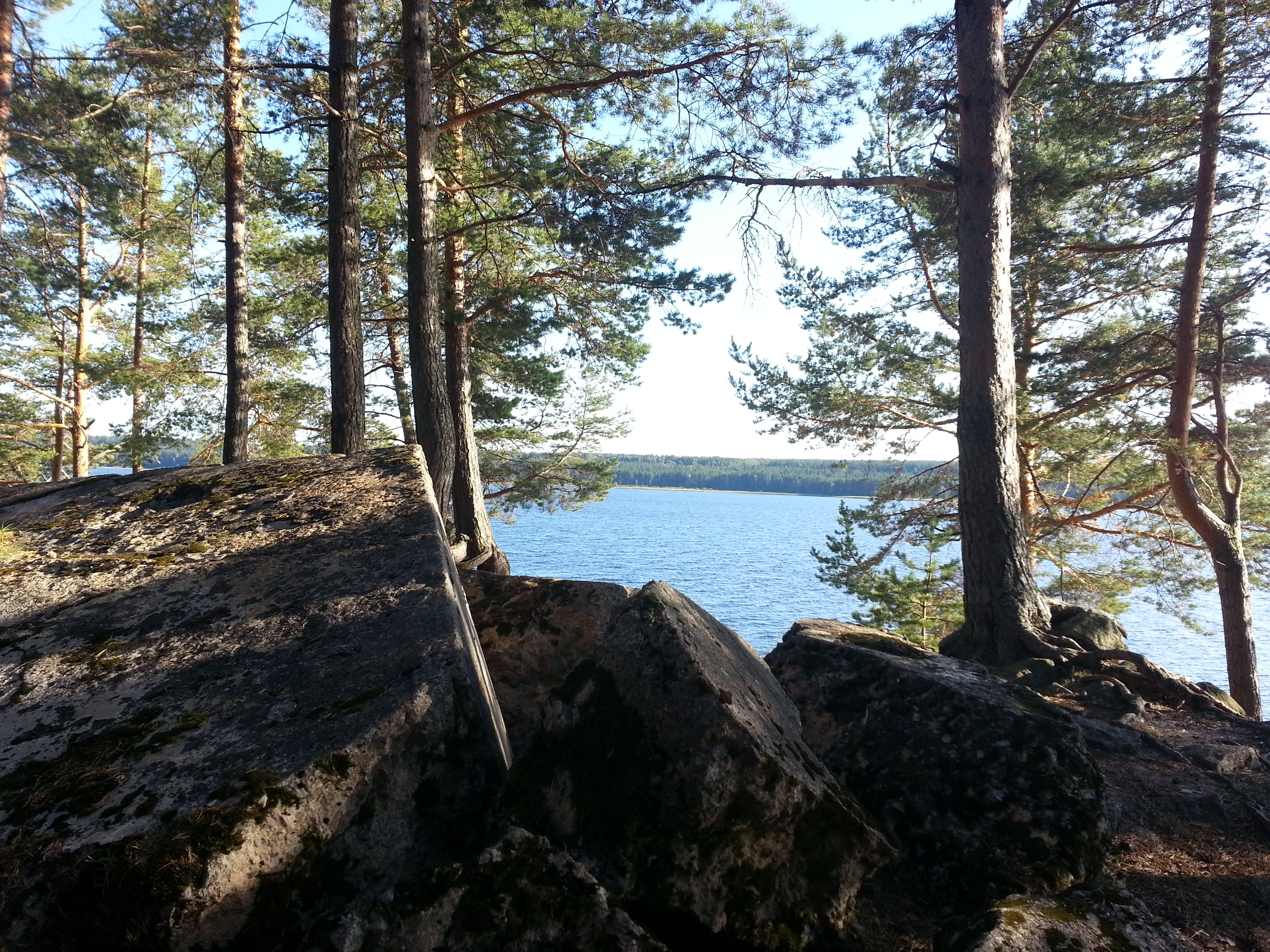 VKT line Sakkola